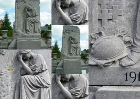 A montage of photographs of the monument aux morts at Antheuil Portes in Picardy, France. This is one of Établissements Rombaux-Roland's editions, one that can be seen throughout France. This monument aux morts dates from 1925 and the inauguration took place on 17 May 1925.